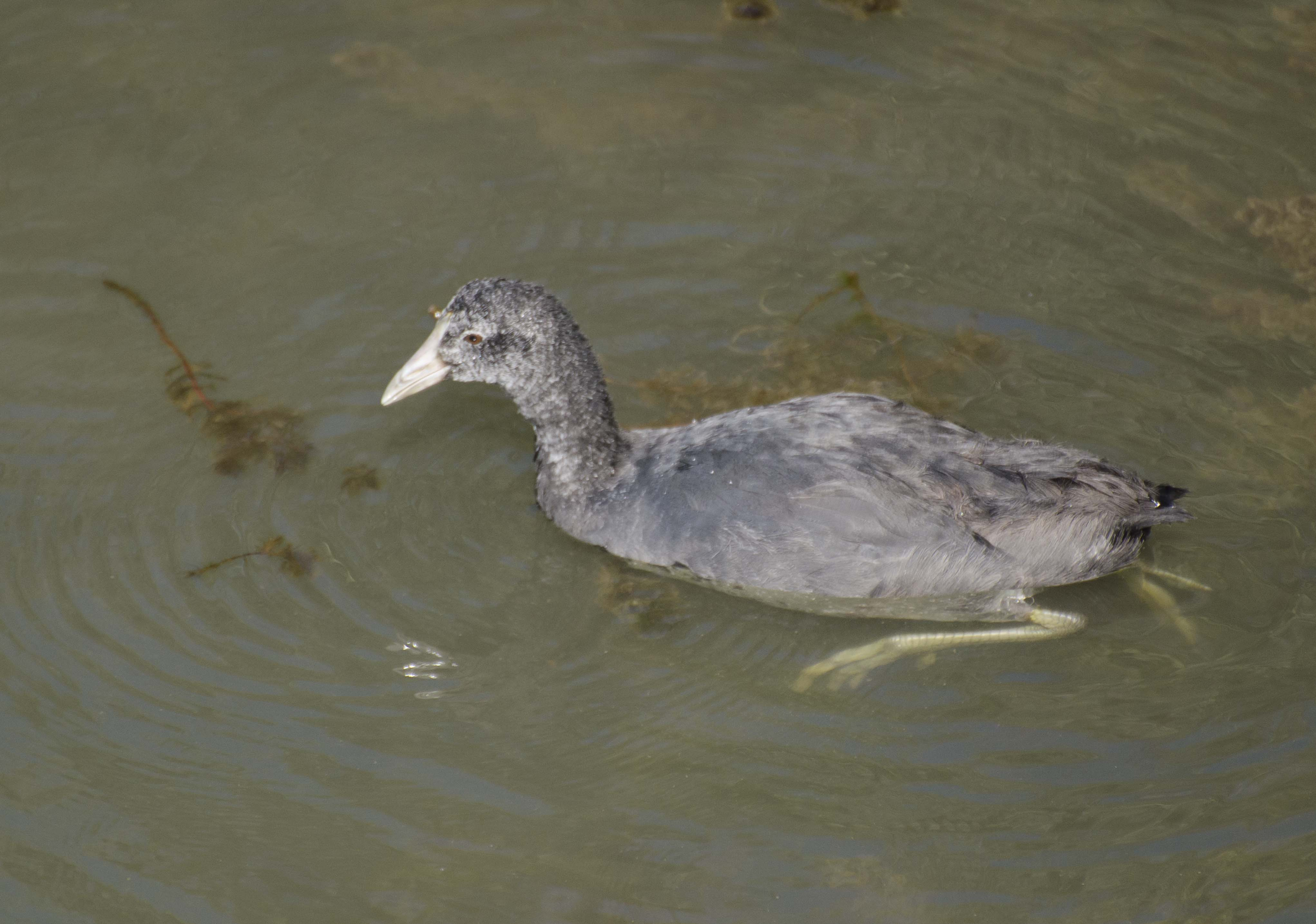 Red-knobbed Coot, juvenile, Parc natural de s’Albufera de Mallorca, Mallorca. A confirmation of the identification would be appreciated.